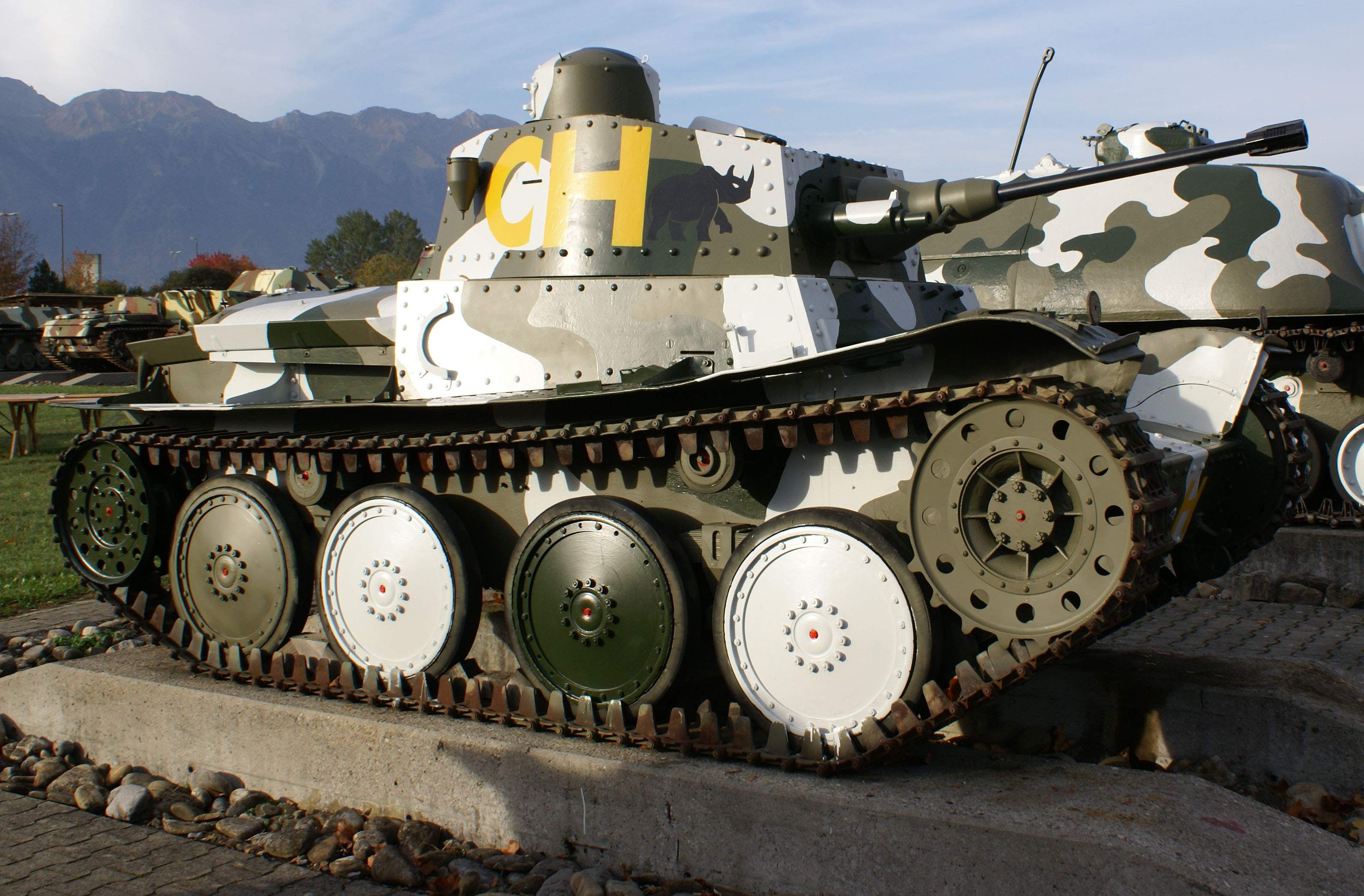 Swiss Army. Armoured car 39 "PRAGA". Czech import 1938-39. Tank Museum Thun.